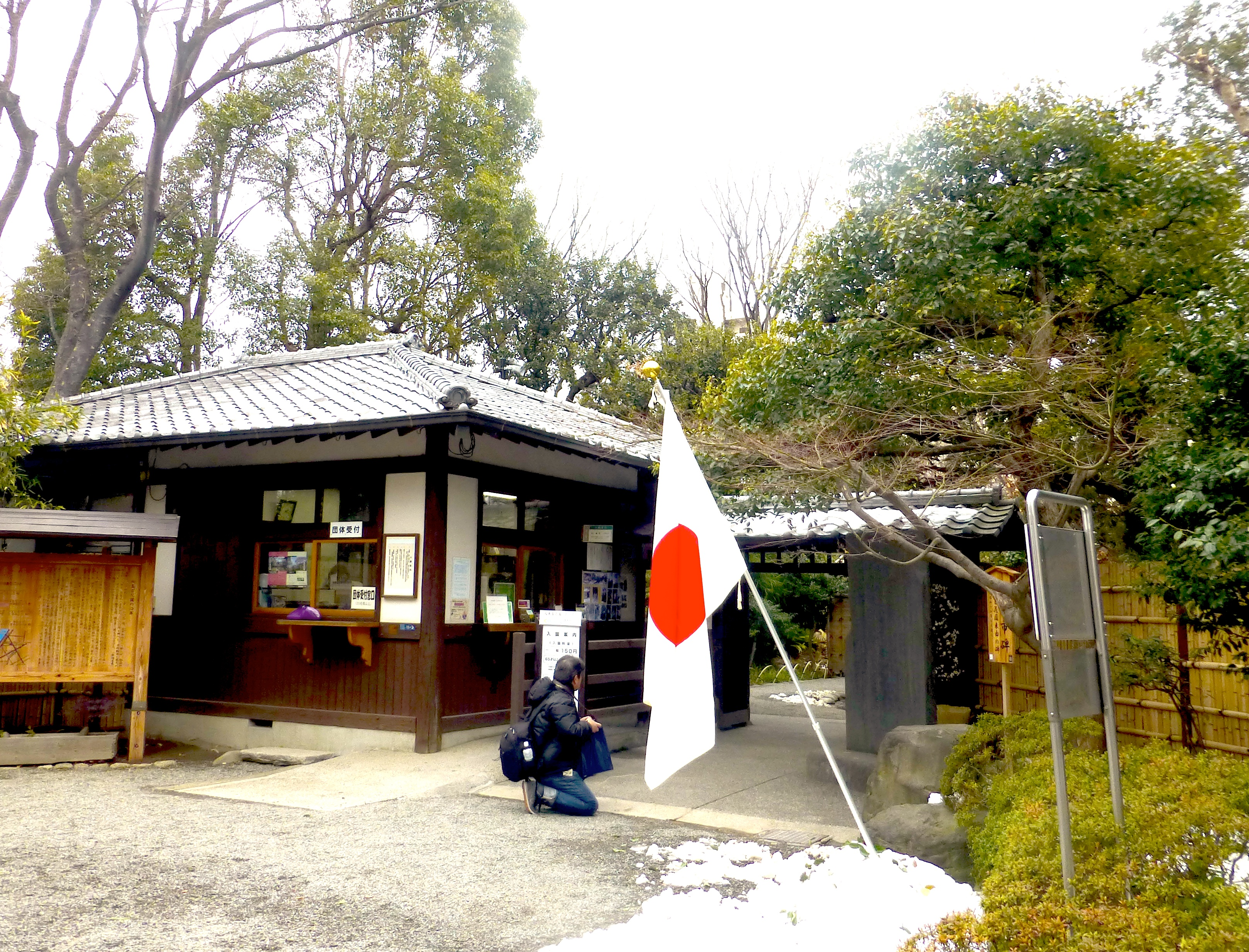 Mukujima hyakkaen entrance